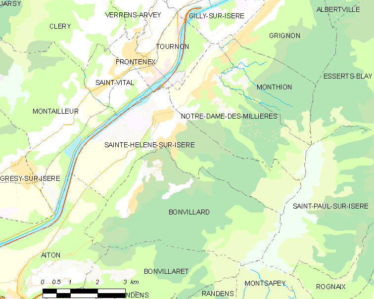 Map of French municipality